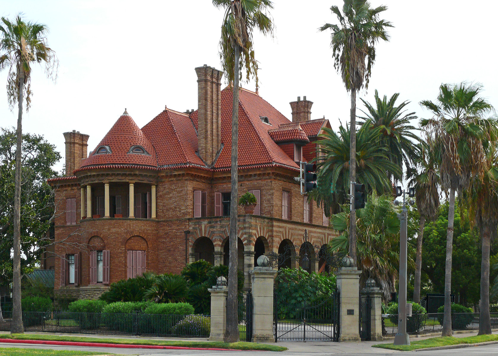 John Sealy was a financier and philanthropist in Galvestion. Sealy was born in Pennsylvania; and moved to Galveston in 1846 to seek his fortune. Galveston was the principal seaport and commercial center of Texas where he prospered in banking, shipping, railroads and cotton businesses.